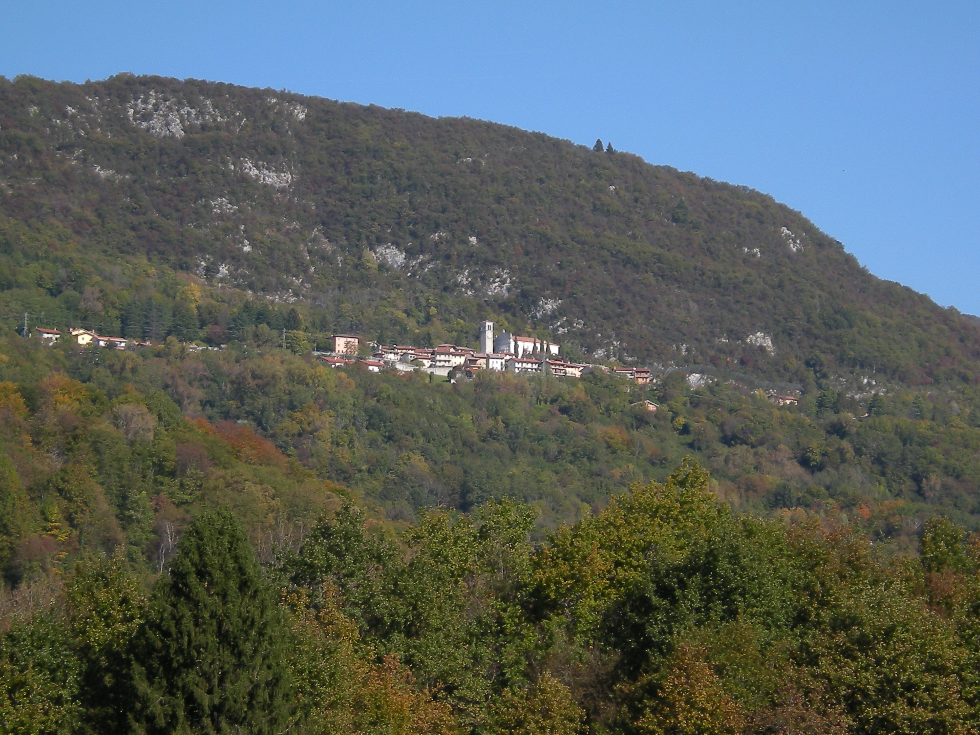 The village of Vito d'Asio - province of Pordenone - Italy